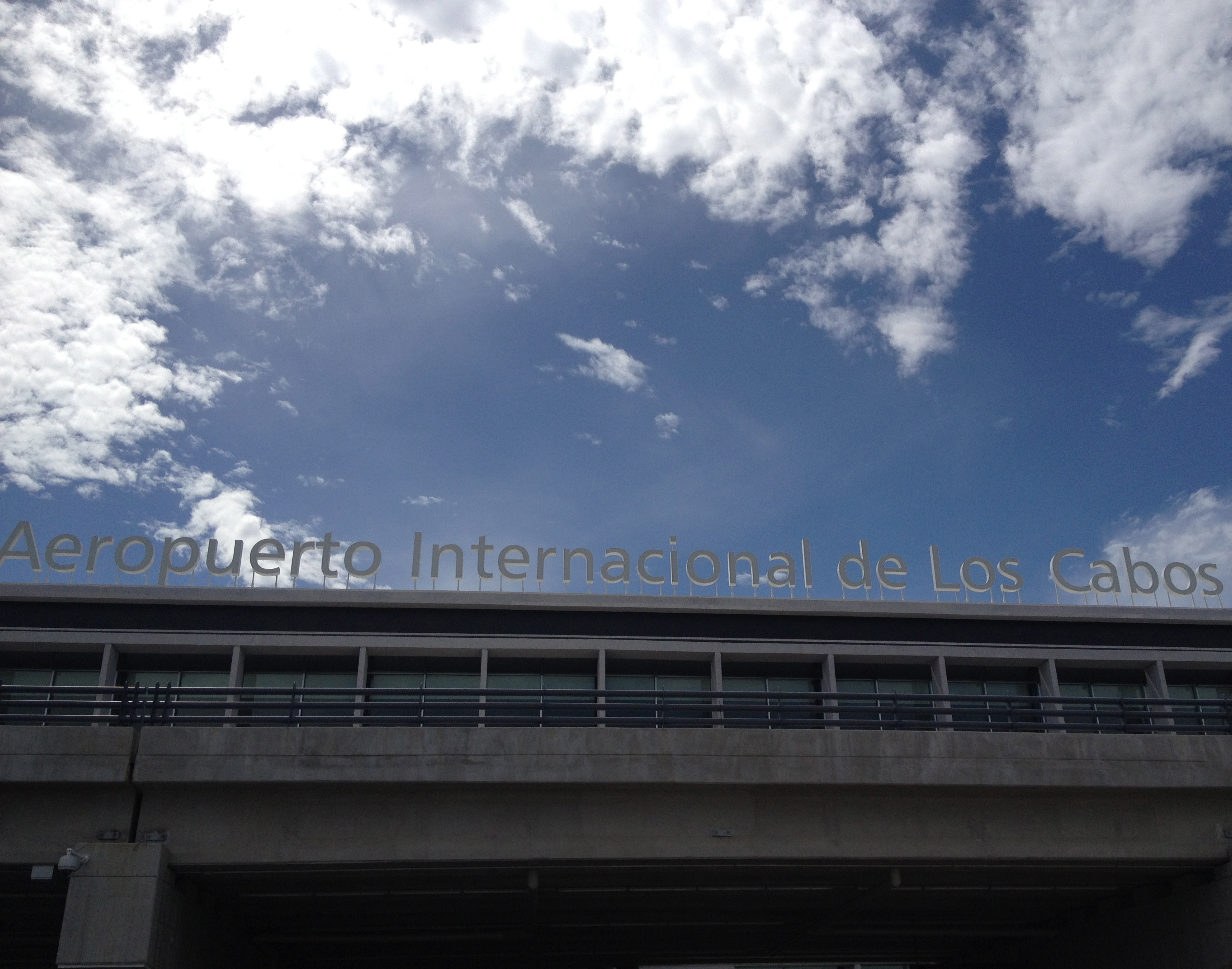 The Logo above the exit of the Los Cabos International Airport.